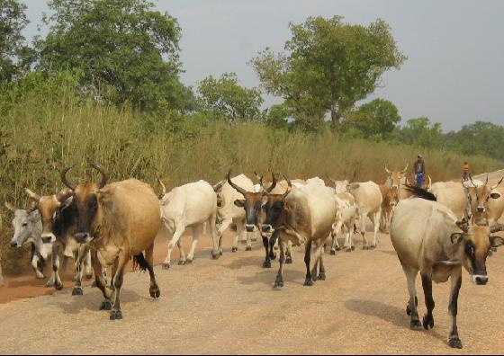 Crossing cows